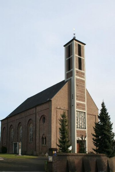 Cultural heritage monument No. 29 in Gangelt